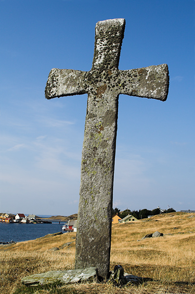 Stone cross of size 3.90 X 1.87 meters, most likely a navigation mark from about 800 - 1050 AD Location: On a hilltop at Krossøy, municipality of Kvitsøy in the county of Rogaland, Norway.